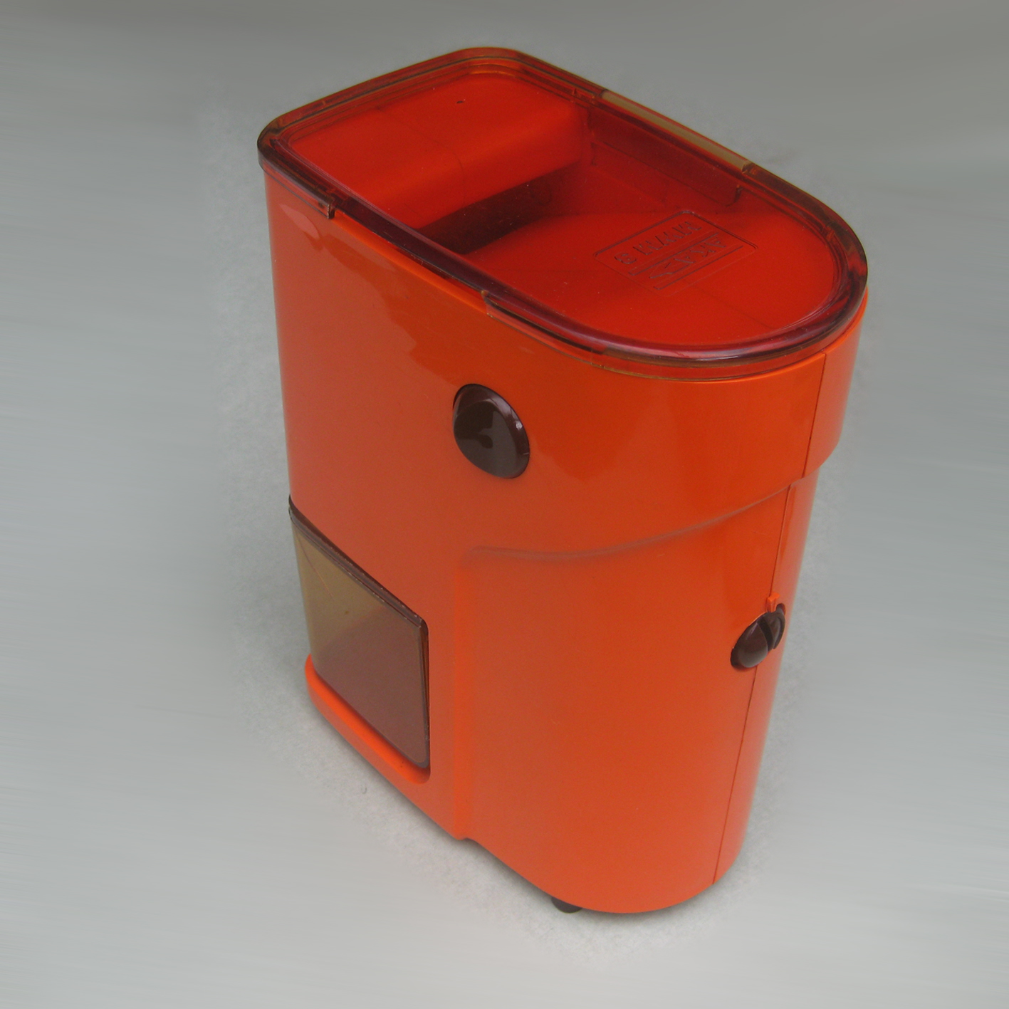 coffee grinder "MWM 3" made by the Eastern German company "AKA electric", designed by Kurt Boeser